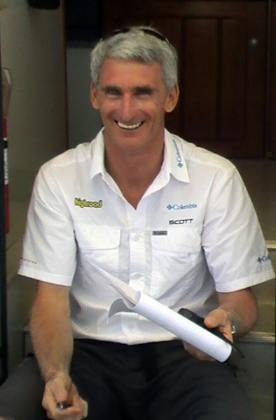 Allan Peiper High Road Cycling Team 2008